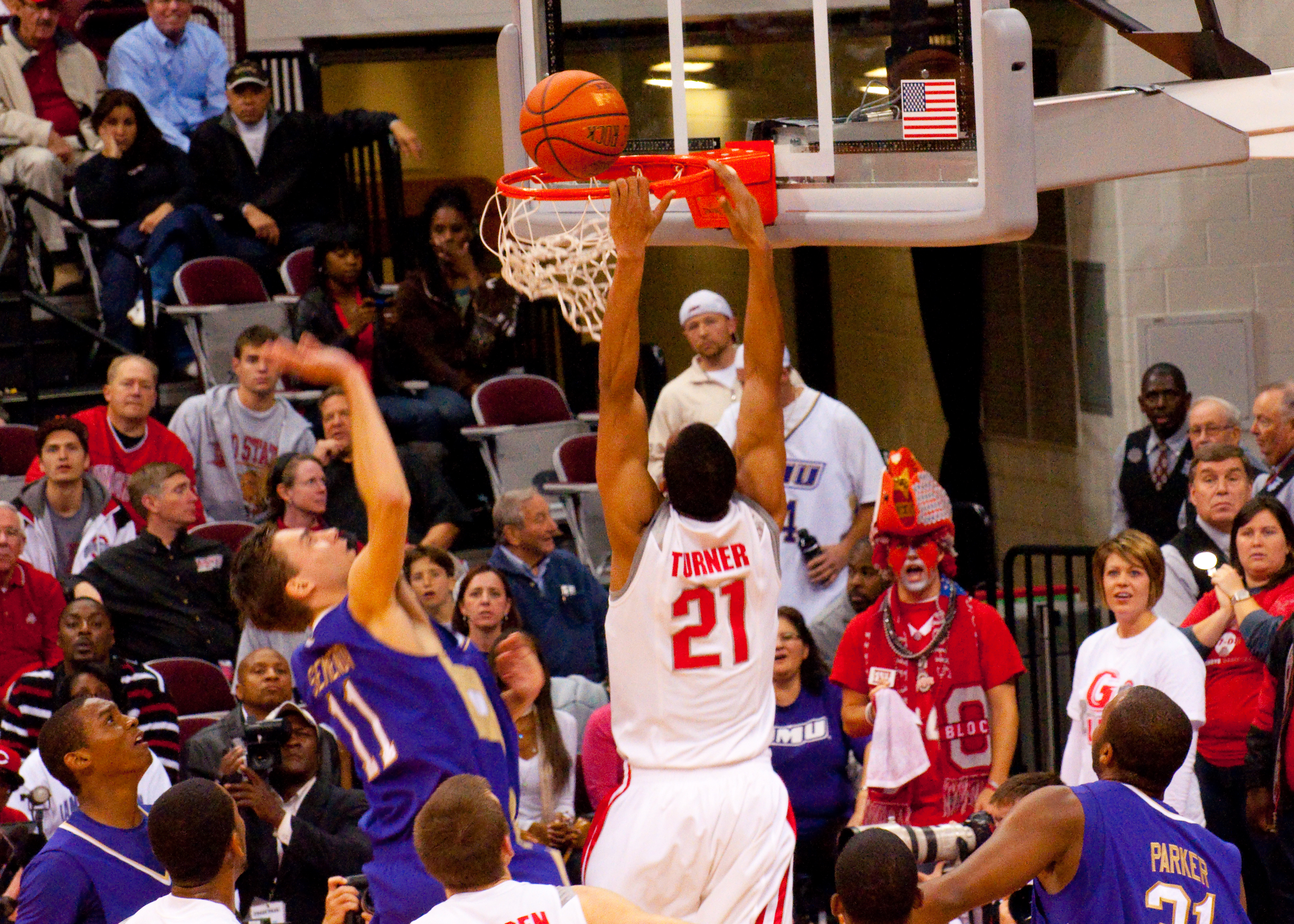 Evan Turner dunks